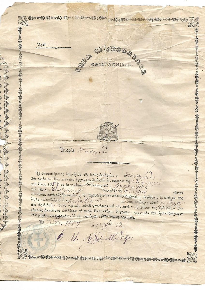 Birth Certificate from Nativity of Mary Parish in Thessaloniki Metropoly 1887